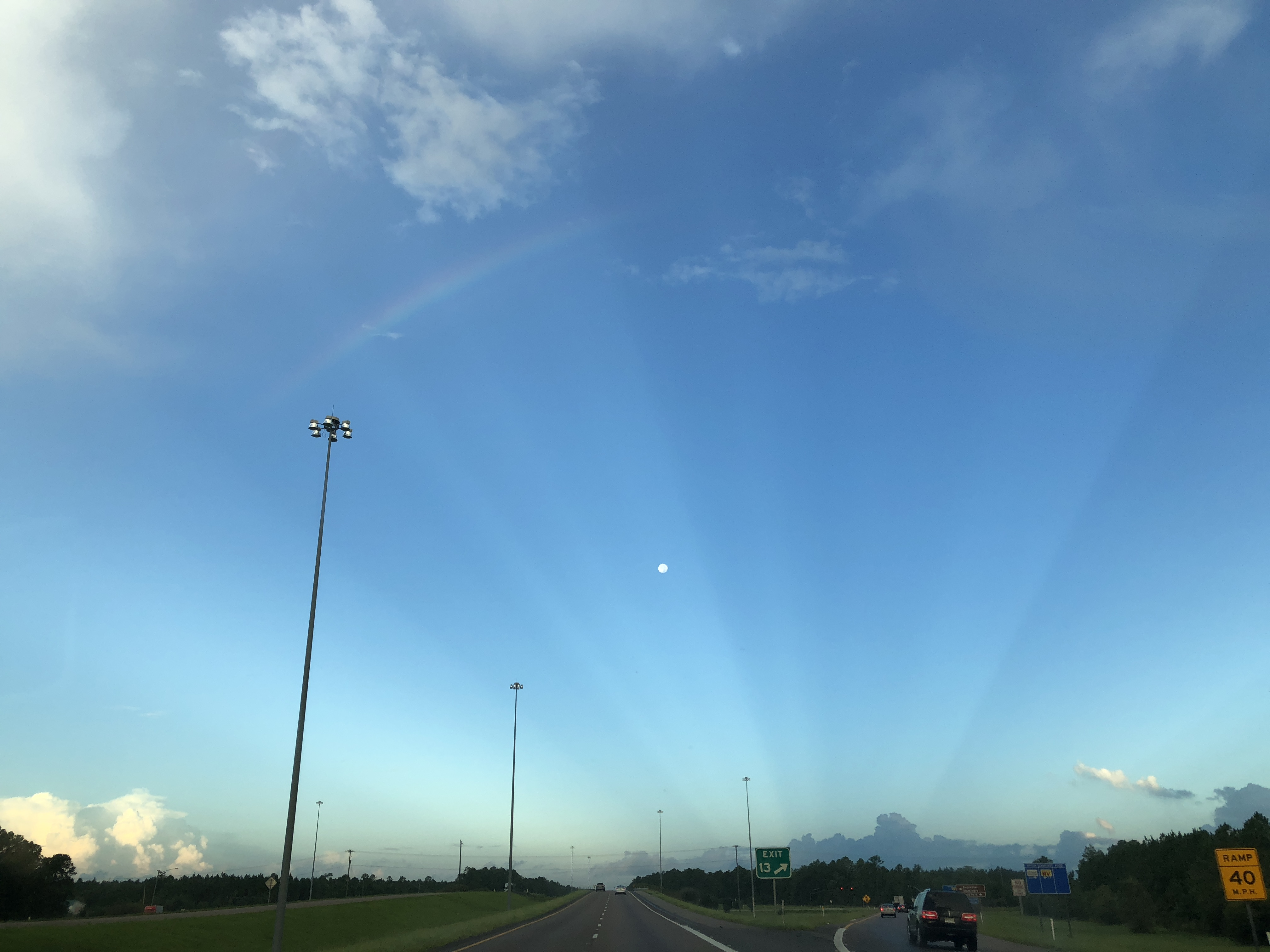 Anticrepuscular rays appear opposite of a sunrise on the Gulfcoast of Mississippi. Note the anticrepuscular rays are perpendicular to the rainbow.